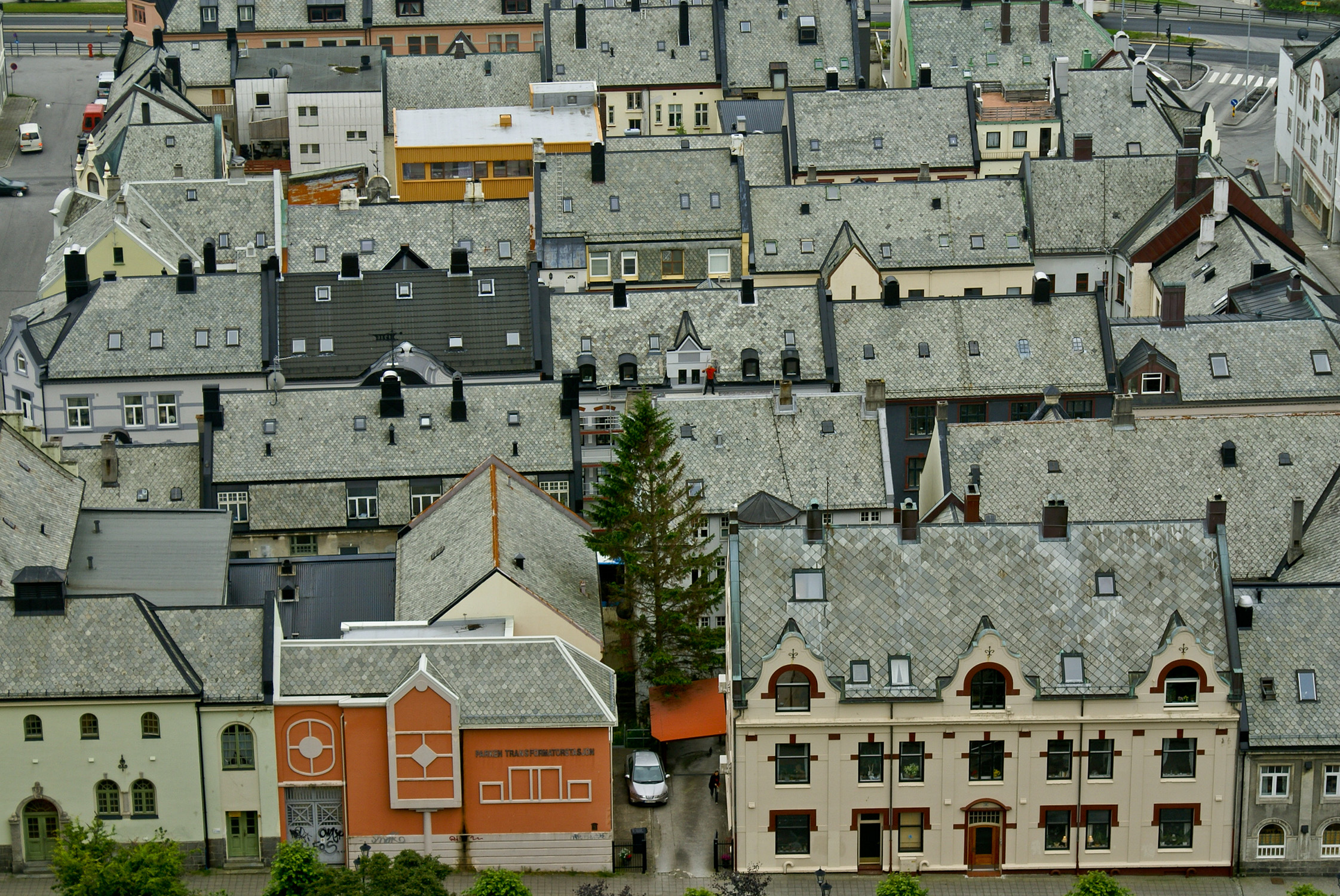 Roofs in Ålesund, Norway. Blocks near Parkgaten and Kaiser Wilhelmsgate